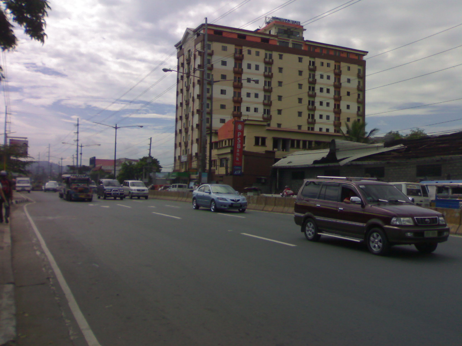 Ortigas Royale Condominium along Ortigas Avenue Extension, Cainta, Rizal